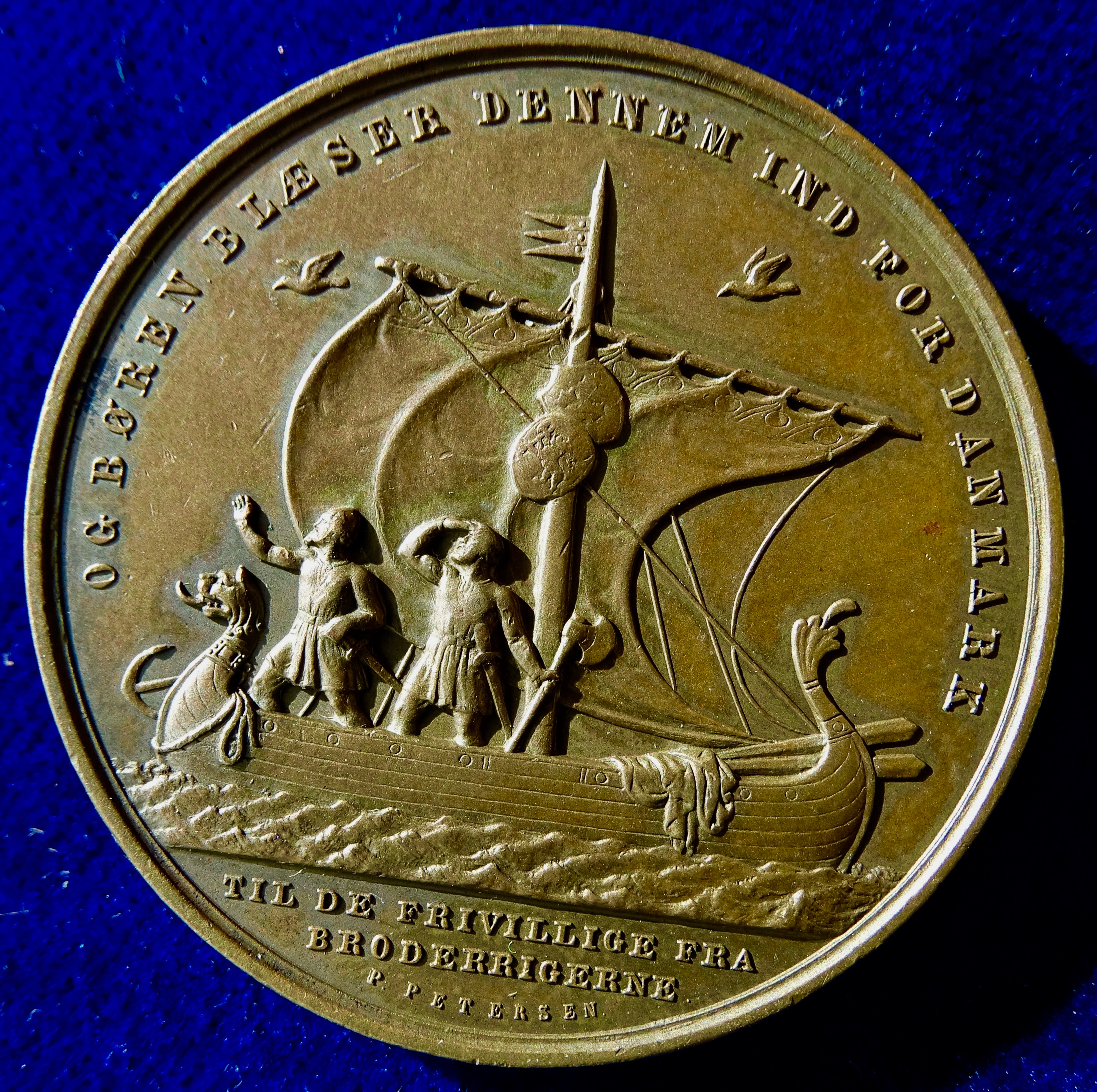 First Schleswig War 1848-1852 Danish Medal 1850 ND for Scandinavian Volunteers aiding Denmark Bronze, d. = 41 mm. Frederik VII, King of Denmark, 1848 - 1863 Viking sailing ship, with 2 Viking warriors. On its mast the coat of arms of Sweden and of Norway. Curved above: "OG BOREN BLAESER DENNEM IND FOR DANMARK". 2 lines in exergue: "TIL DE FRIVILLIGE FRA BRODERRIGERNE"/ Norse mythology god Heimdallr stands r. above the Great Bear constellation in the northern sky blowing his Gjallarhorn. Curved above: "NU STANDER STRIDEN UNDER IUTLAND". Lange 206; Forrer IV p.465 Medallist: Peter Petersen, 1810 Ribe, Denmark - 1892 Copenhagen-Frederiksberg Condition: UNCIRCULATED.